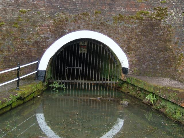 The 1777 Harecastle Tunnel. The north portal of the original James Brindley tunnel completed in 1777, unfortunately no longer in use.